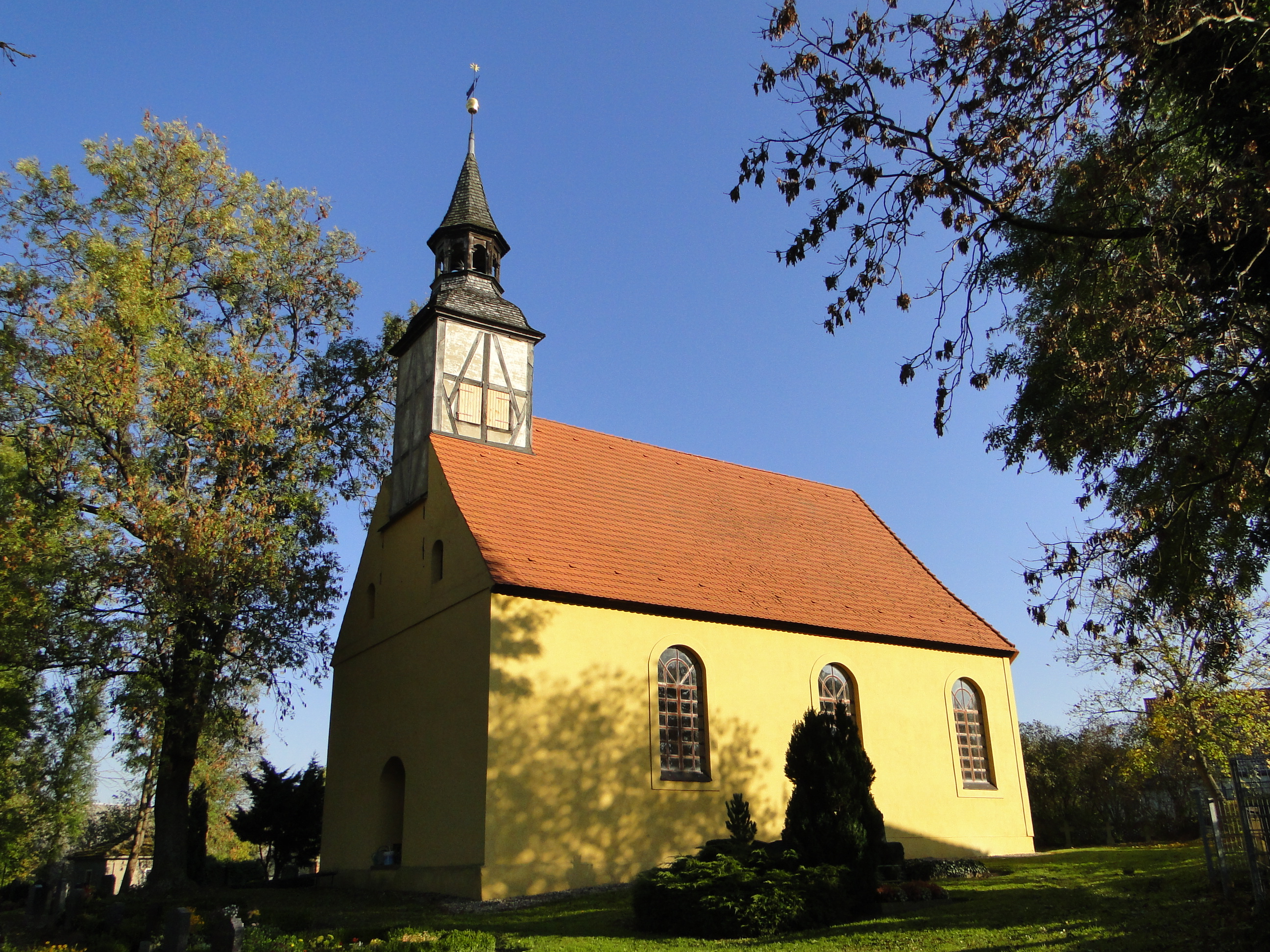 Church in Mallin, district Müritz, Mecklenburg-Vorpommern, Germany